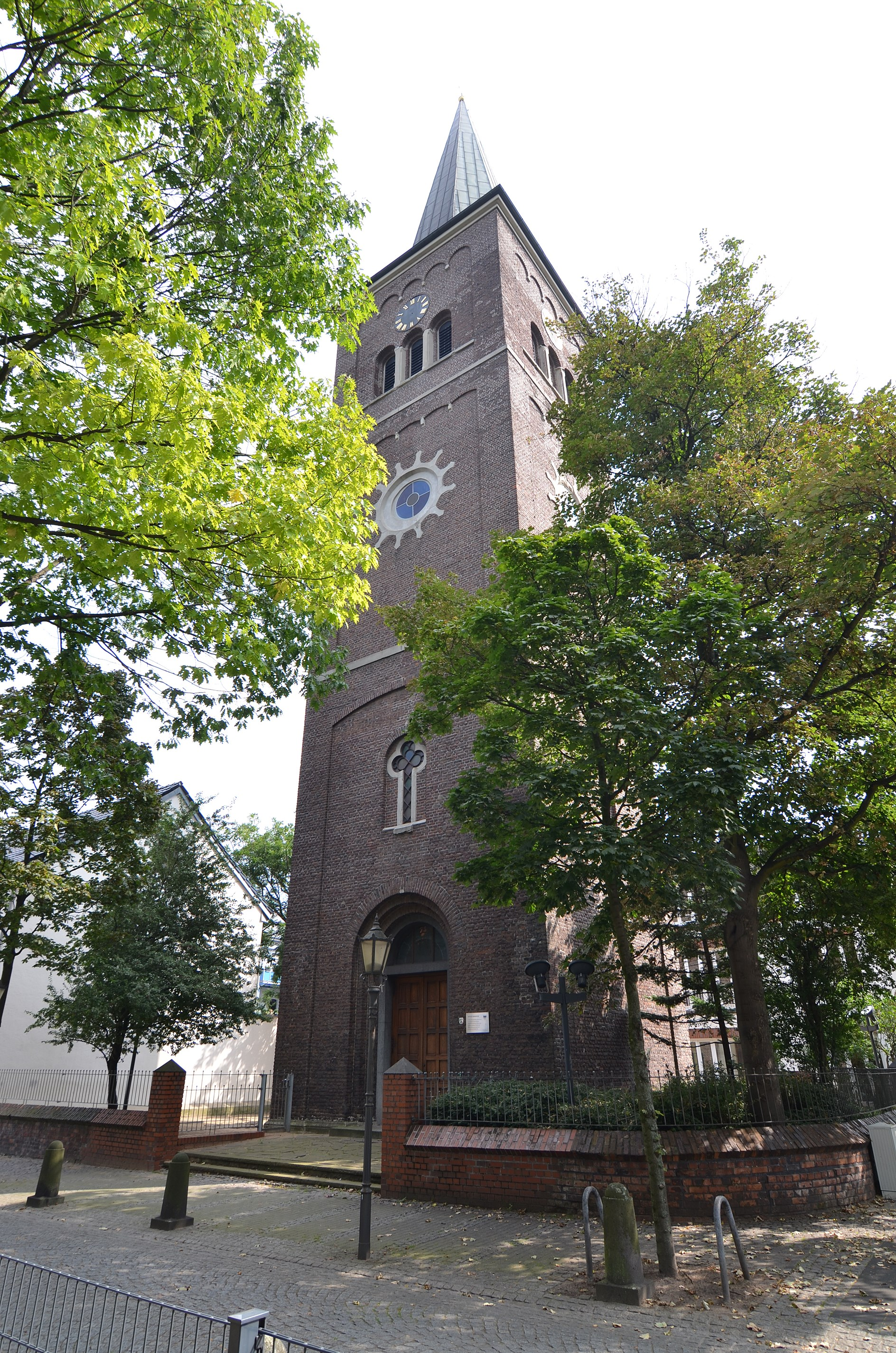 Duisburg (North Rhine-Westphalia, Germany) – borough Homberg/Ruhrort/Baerl, district Ruhrort – Protestant Saint James Church – tower This image shows a heritage building in Germany, located in the North Rhine-Westphalian city Duisburg (no. 42). This photograph was taken with a Nikon D7000